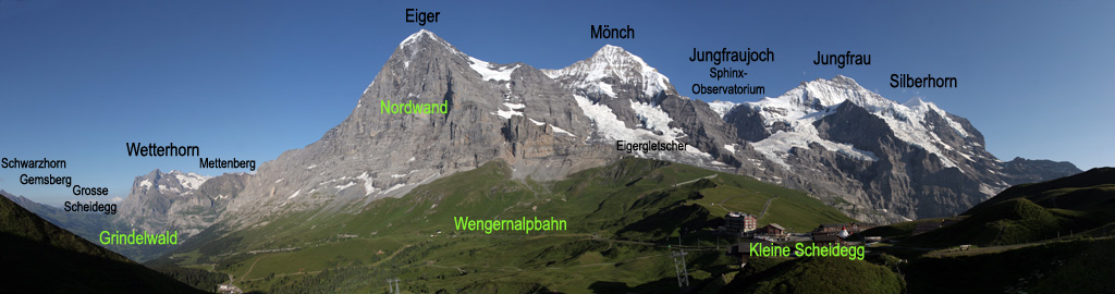 180° view from Kleine Scheidegg.